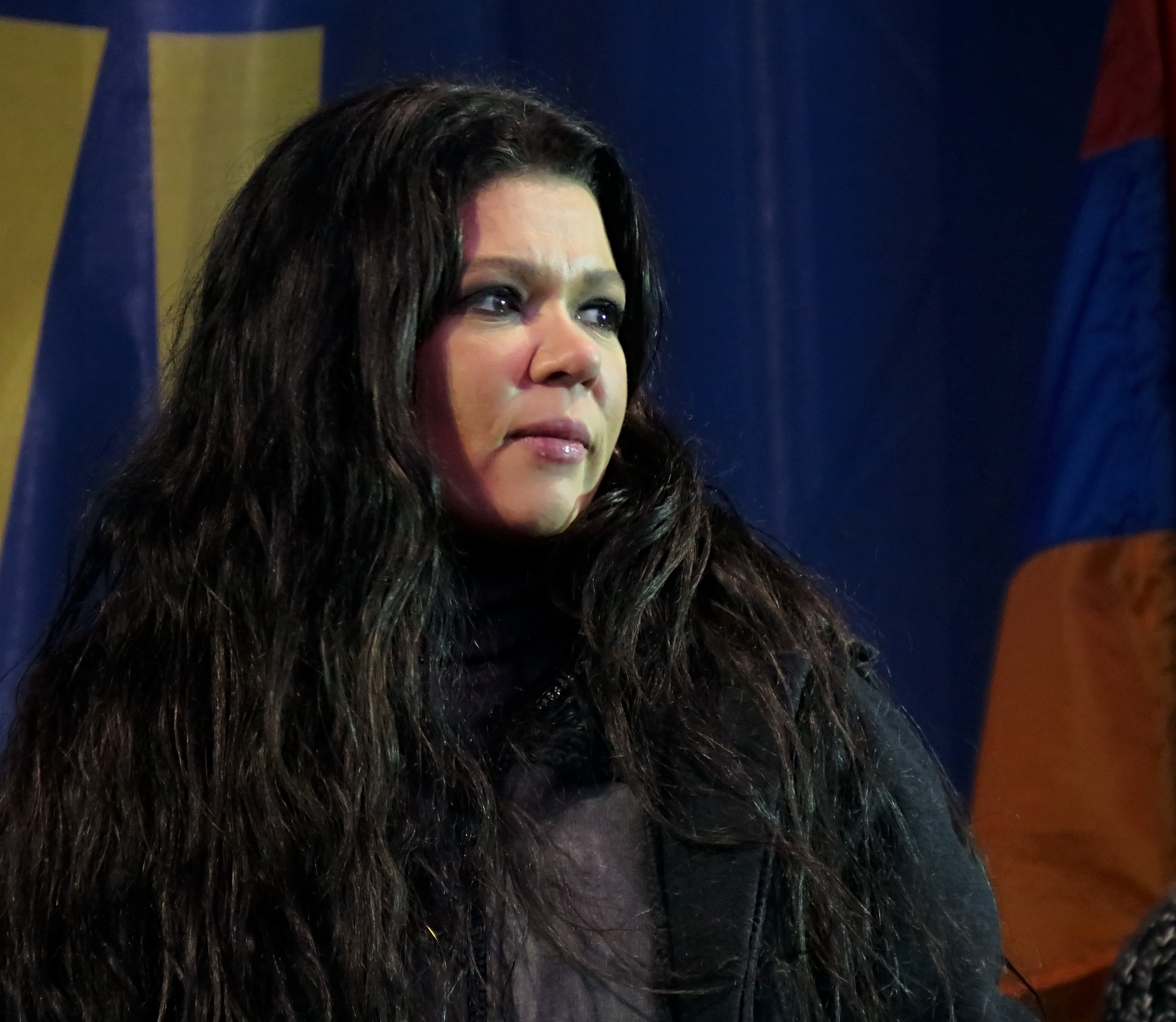 Ruslana at the Euromaidan in Kiev